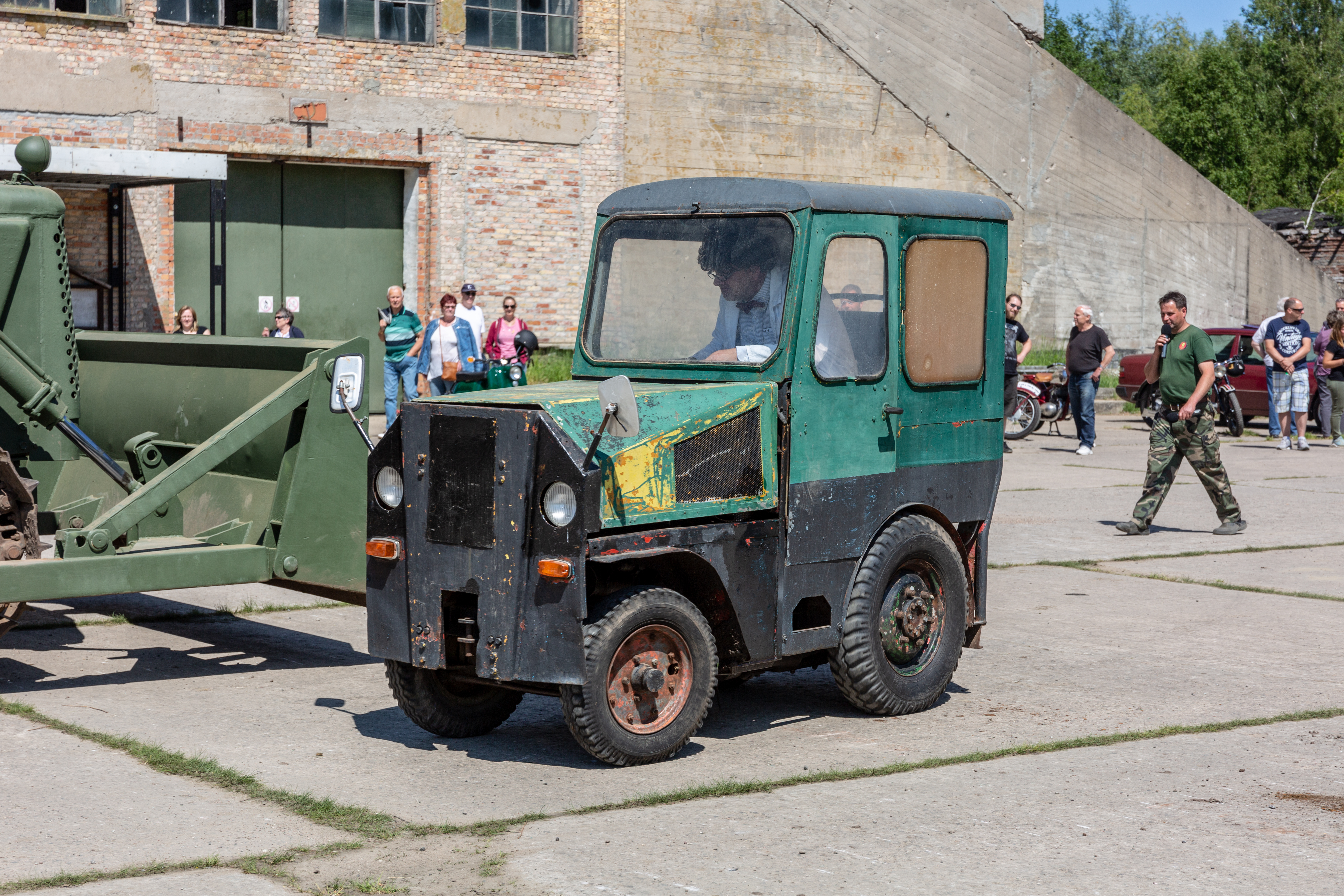 Pfingsttreffen Pütnitz 2018